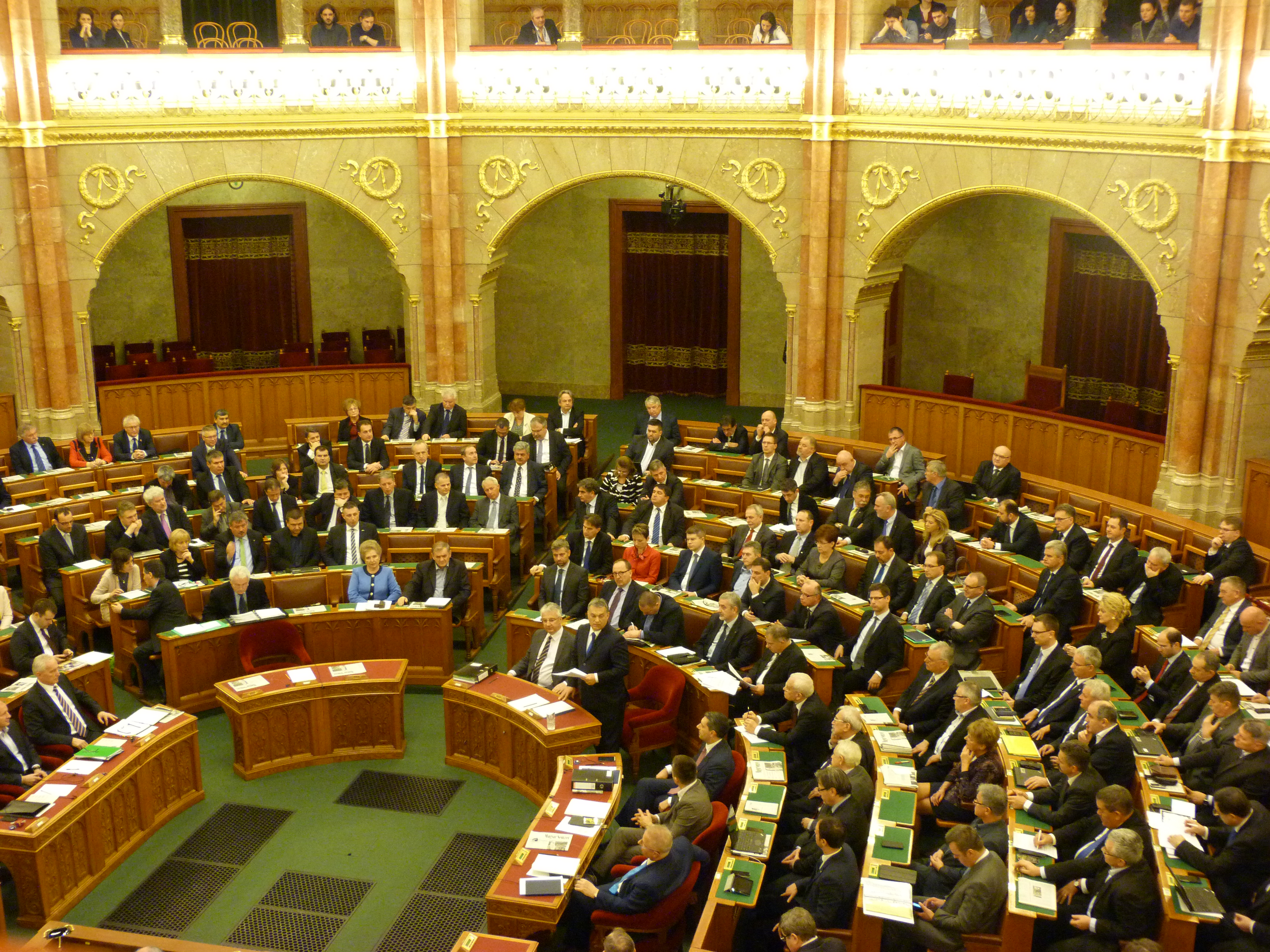 Taken on the 15th of February, 2016. Országház, Houses of Parliament, Budapest, Hungary. The Spring Session of the Parliament was opened this day.